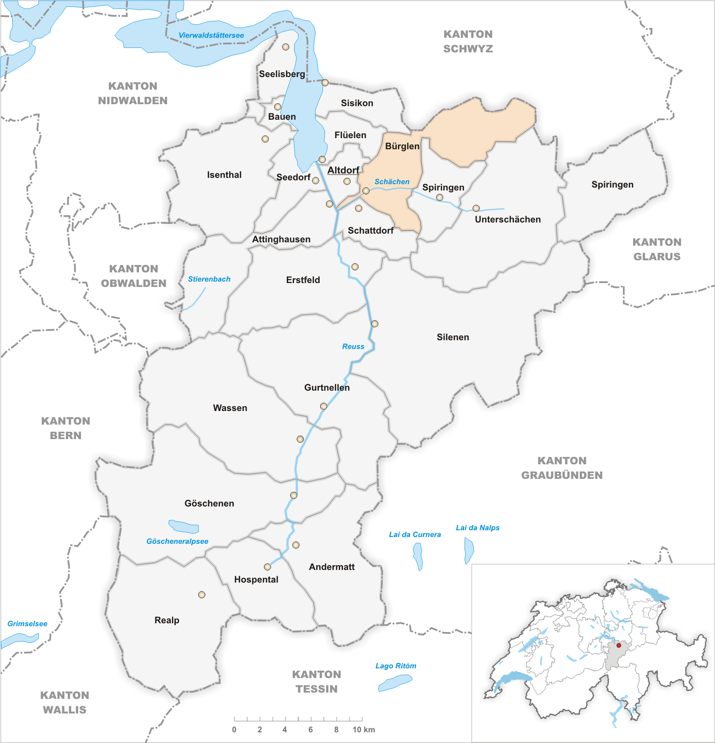 Municipality Bürglen